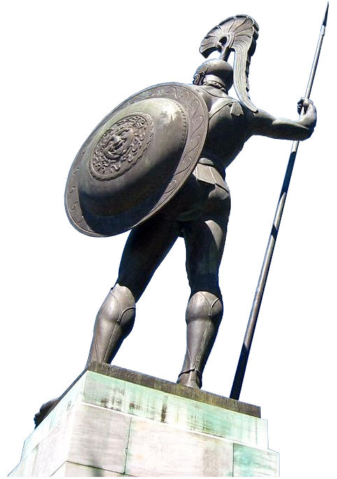 Sculpture of Achilles at Achilleion Palace, Corfu, Greece.